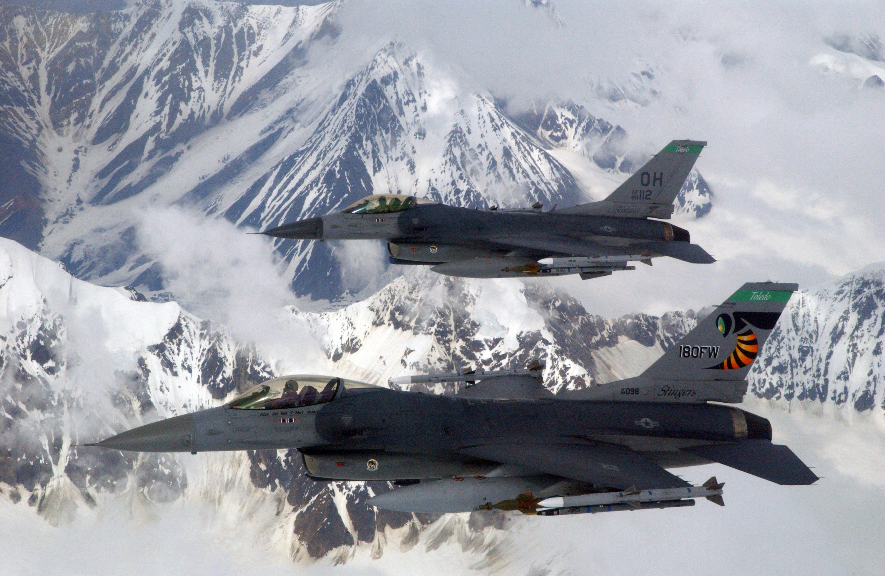 Two U.S. Air Force General Dynamics F-16C Block 42F/G Fighting Falcon fighters (s/n 89-2098, 89-2112) from the 112th Fighter Squadron Stingers, 180th Fighter Wing, Ohio Air National Guard during "Exercise Northern Edge '06", over Alaska on 14 June 2006.